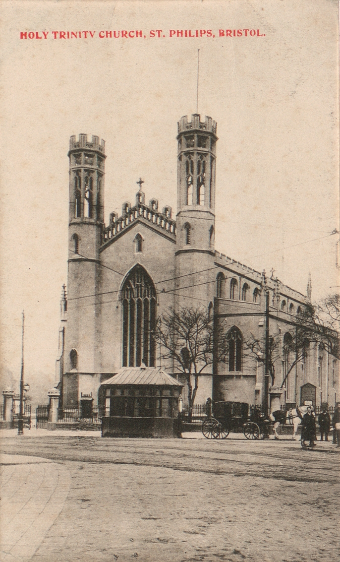 Black and white photograph postcard from 1905 showing the west end of the church, Holy Trinity St Philips, Bristol, UK, also showing a horse and cart and three figures. Bristol Record Office reference number: 43207/29/5/1